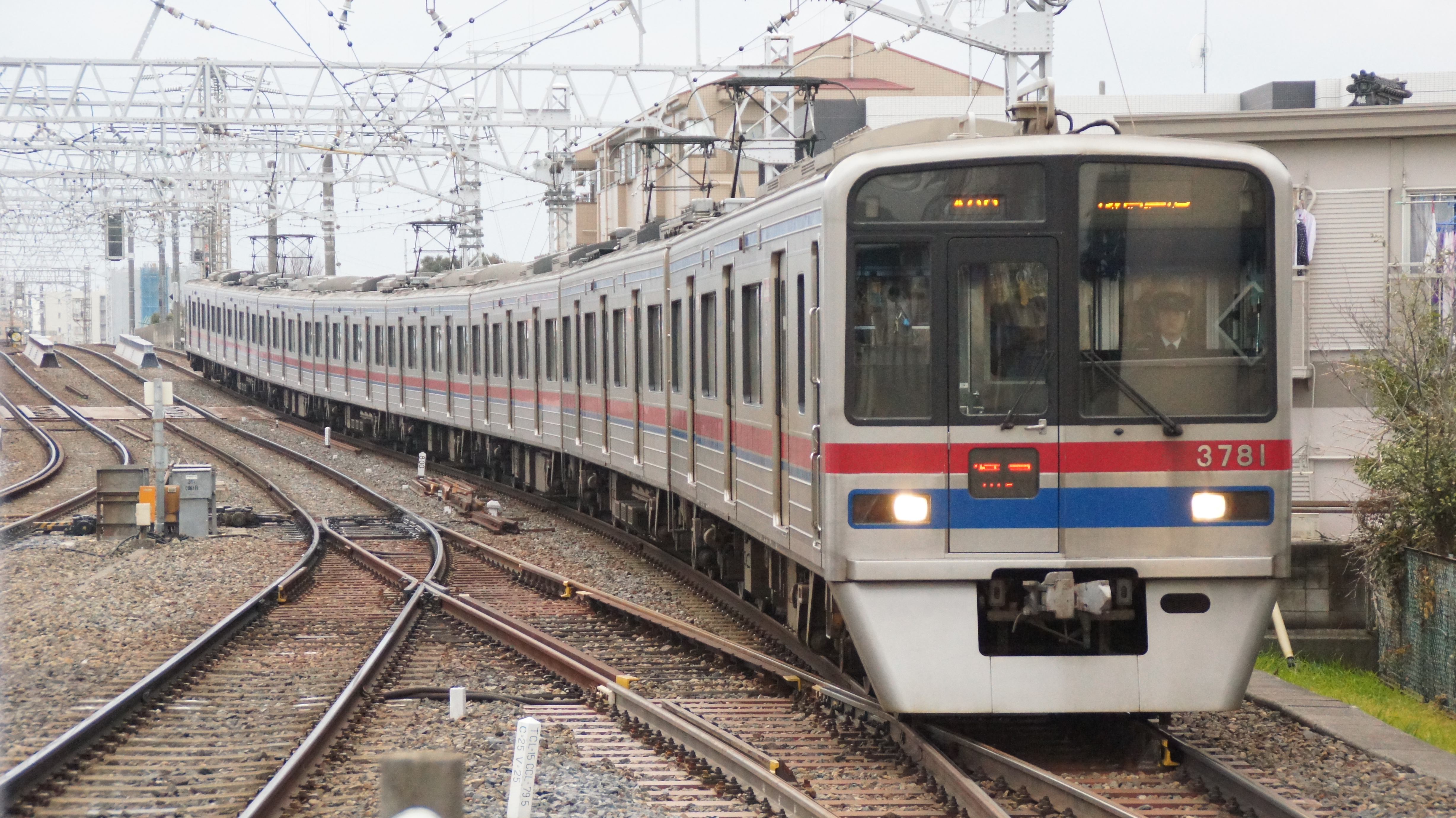 Keisei Electric Railway 3700 series EMU set 3788 approaching Keisei Takasago Station on the Keisei Main Line